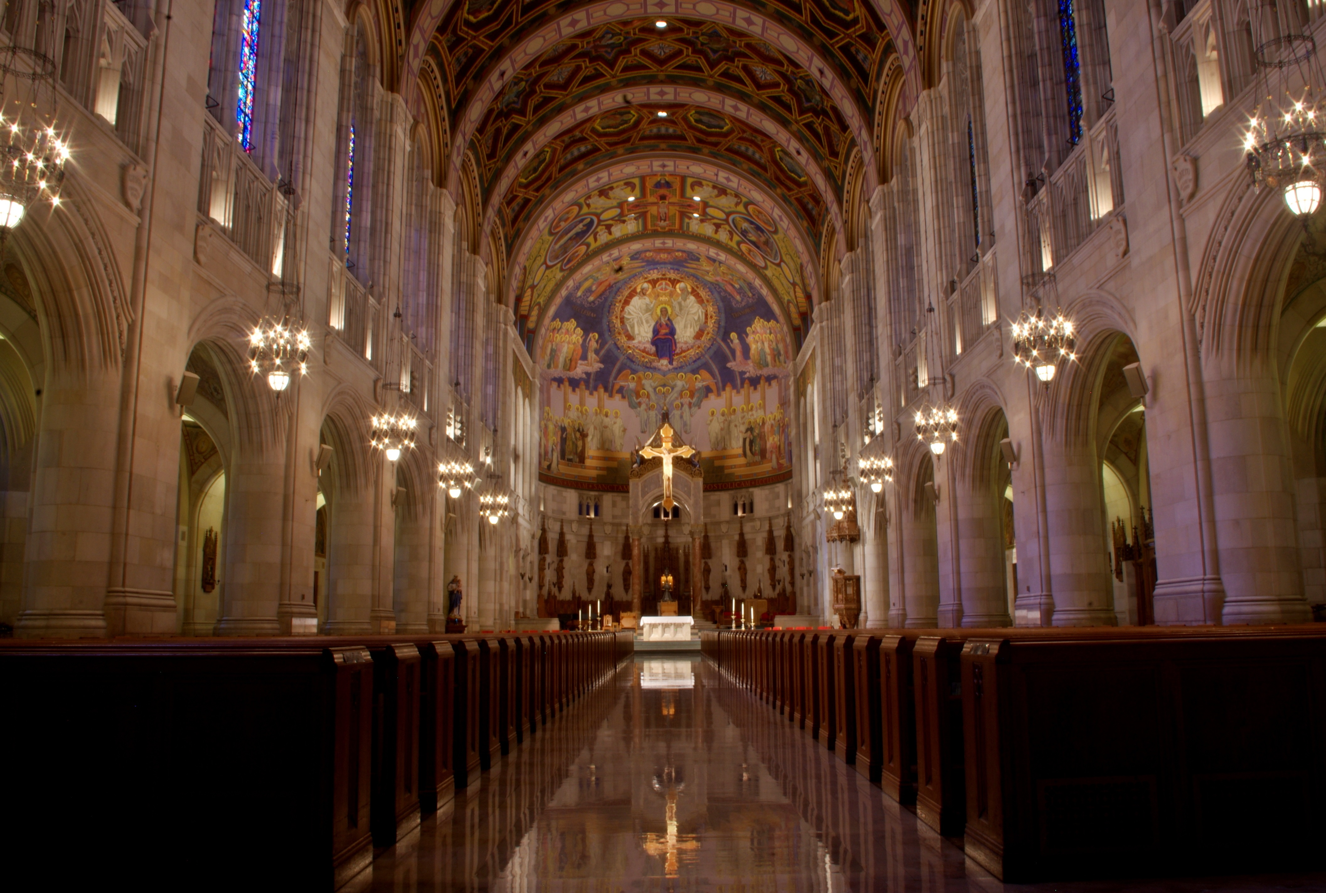 Our Lady, Queen of the Most Holy Rosary Cathedral (Toledo, Ohio) - nave 2